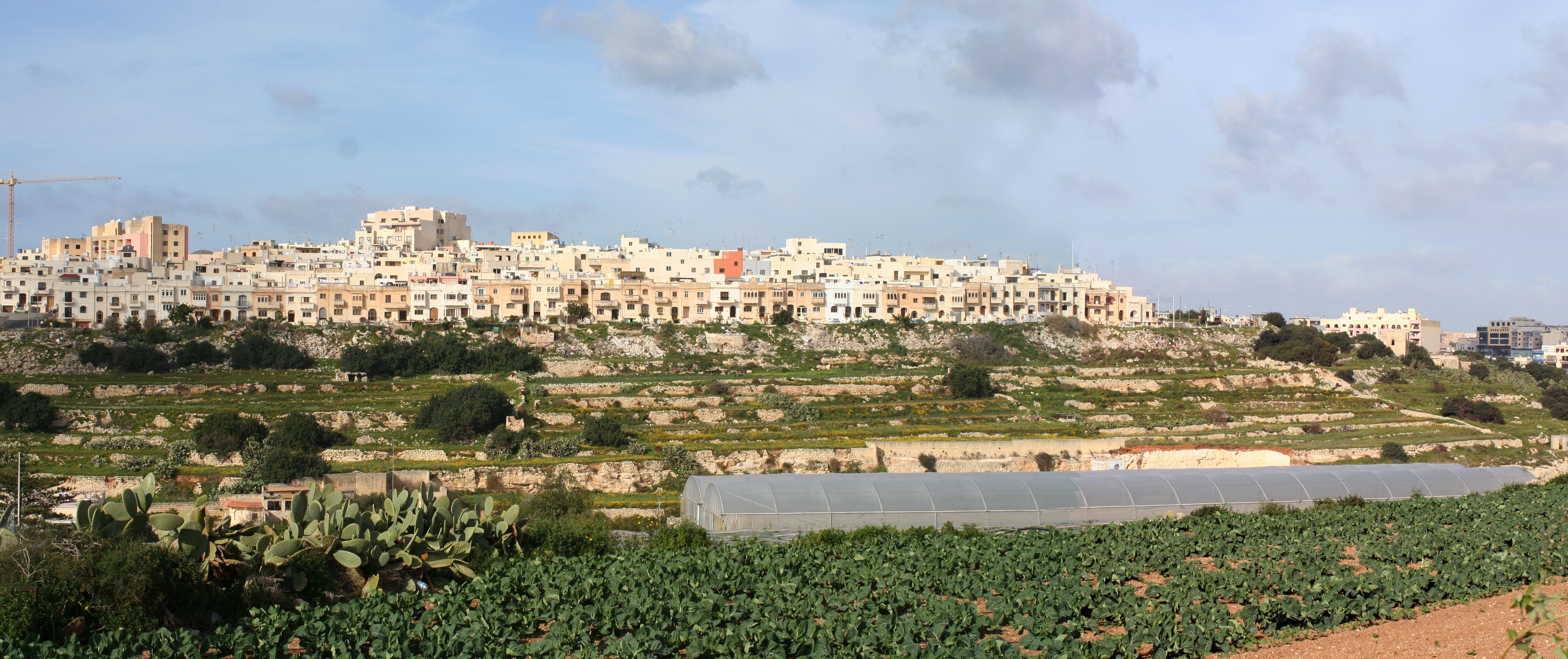 a residential area of Birkirkara, the largest and most populous city in Malta